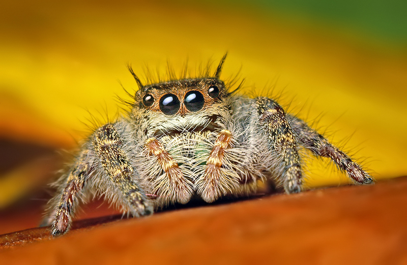 Female Phidippus princepsFlickr description: "The above photo ( a crop) was taken on some fall leaves with the 50mm reversed to some extension tubes. I was forced to use f/16 which provides quite a lot of focus, but isn't too sharp. F/11 looked quite a lot better, but was overexposed."